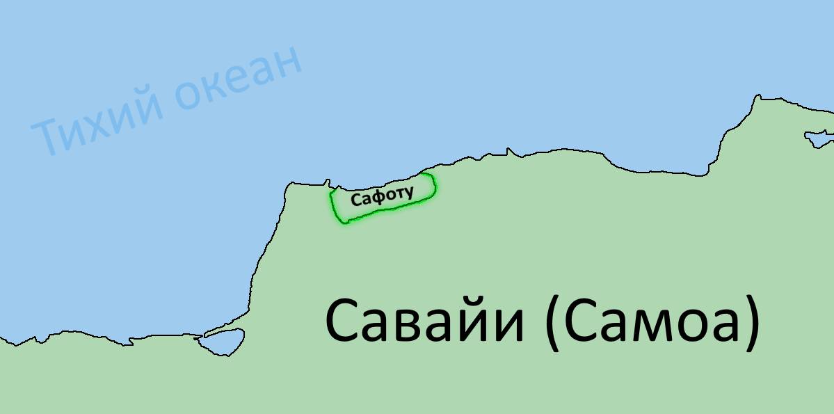 Safotu - the landing place of the Tongan troops during the Polynesian conflict (around 1250)